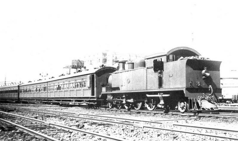 A three quarter view of a WAGR D class tank locomotive, with a set of suburban coaches, at Perth Yard, adjacent to Perth railway station, Western Australia.